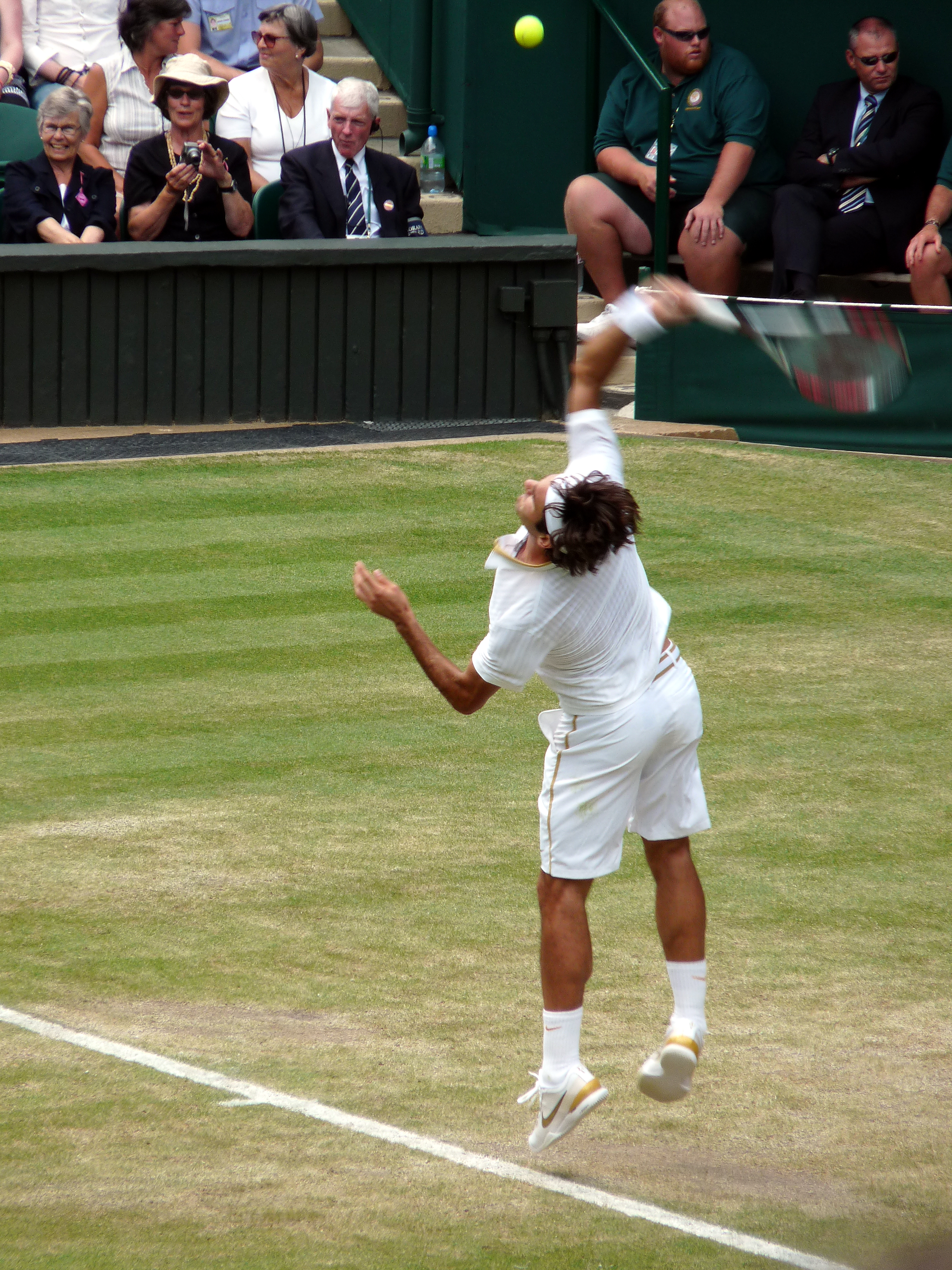 I'm quite chuffed with how the camera coped, considering we were quite far back and I was lacking in tripod!